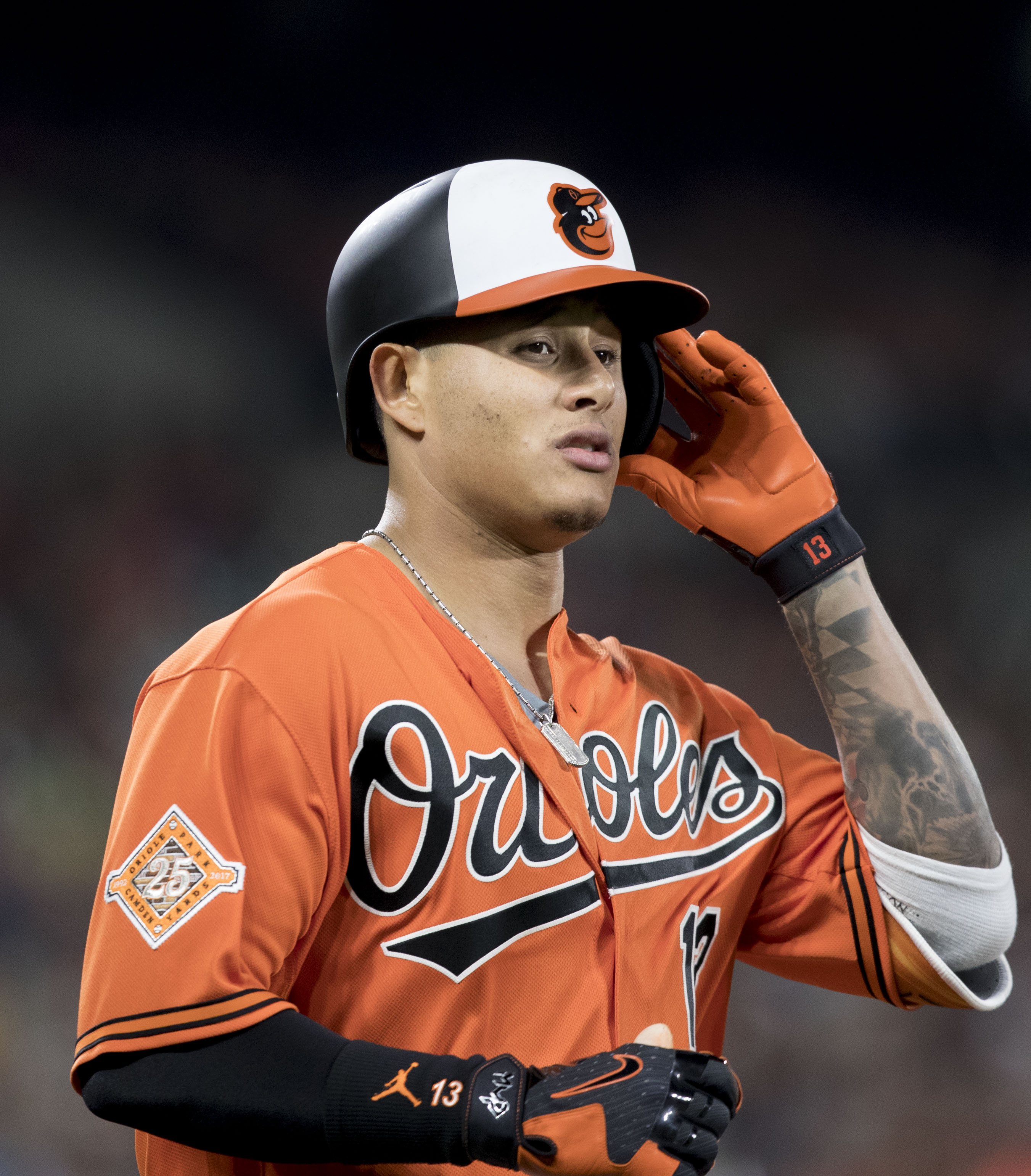 Red Sox at Orioles 4/22/17